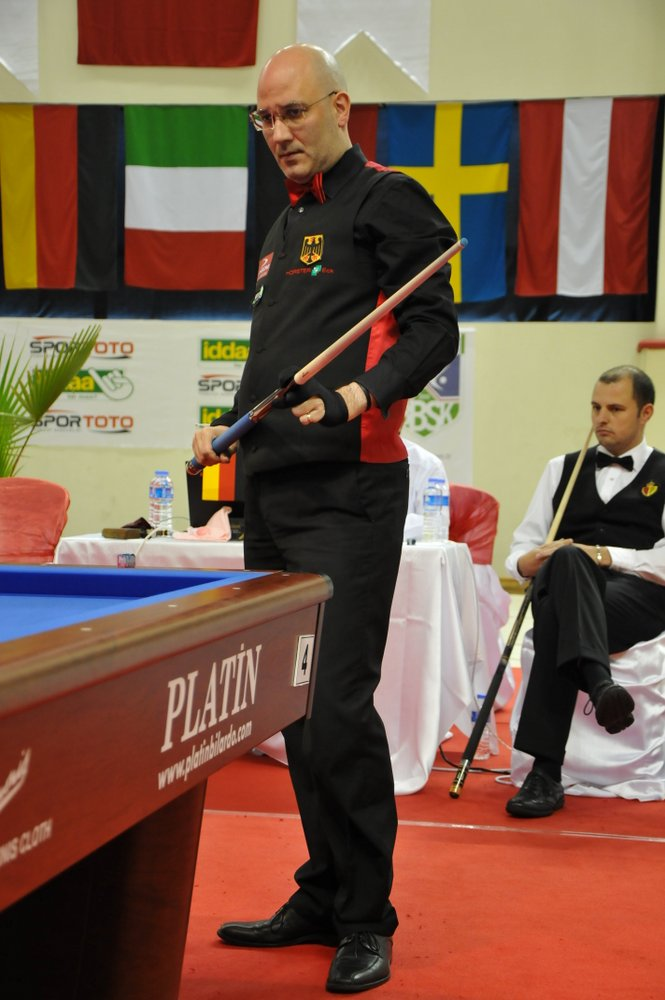 Martin Horn, german billiard player, at the 3-Cushion European Championship in Istanbul 2012